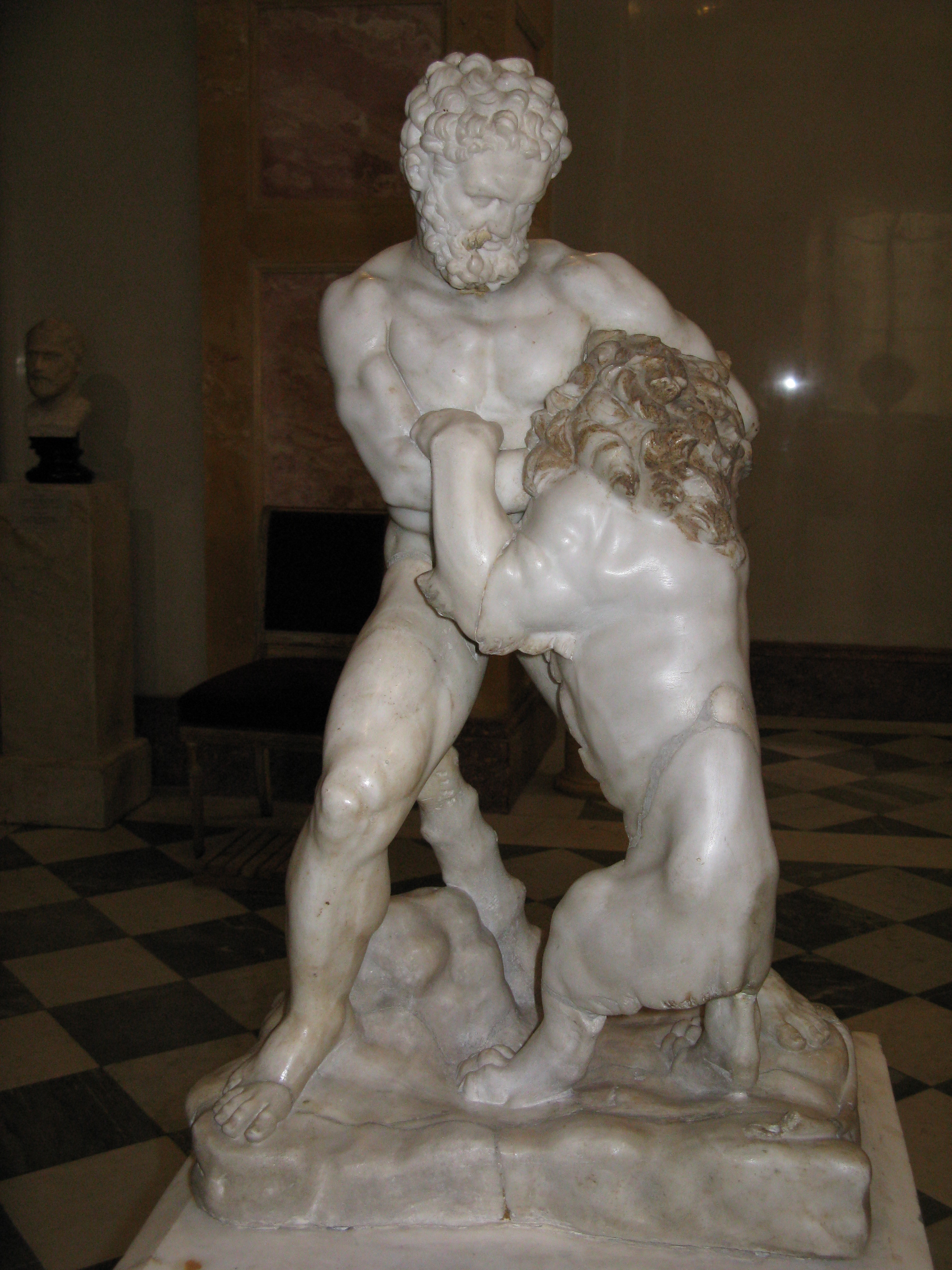 Heracles Slaying the Lion of Nemea at the Hermitage. 1st-2nd century Roman copy of Lysippus' original.